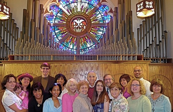 St. Joseph Parish, Mountain View, CA Emphasis on Organ Pipes and Stained Glass